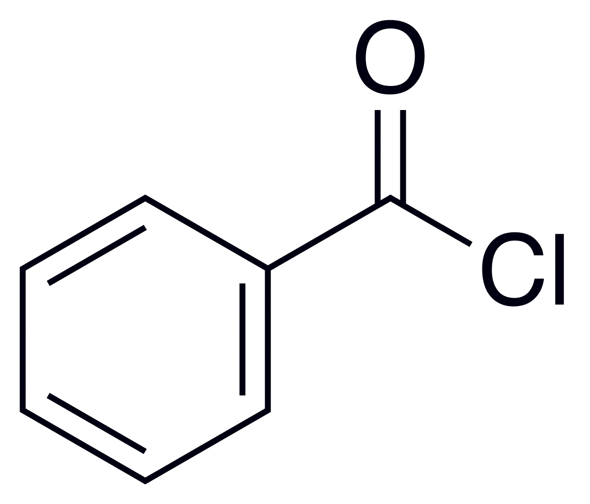 Skeletal structure of benzoyl chloride